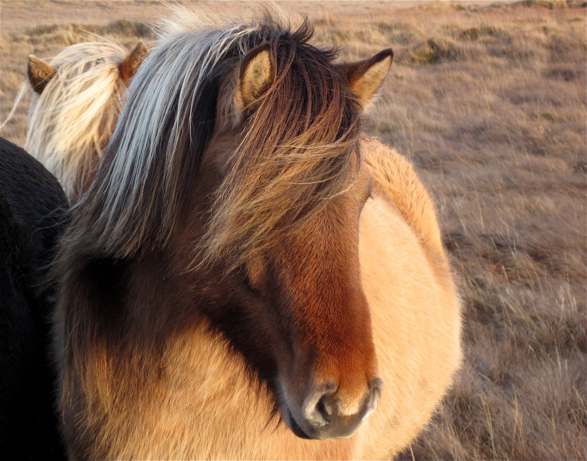 Shy Eyes // A dun horse with a prominent "mask" marking on the head.